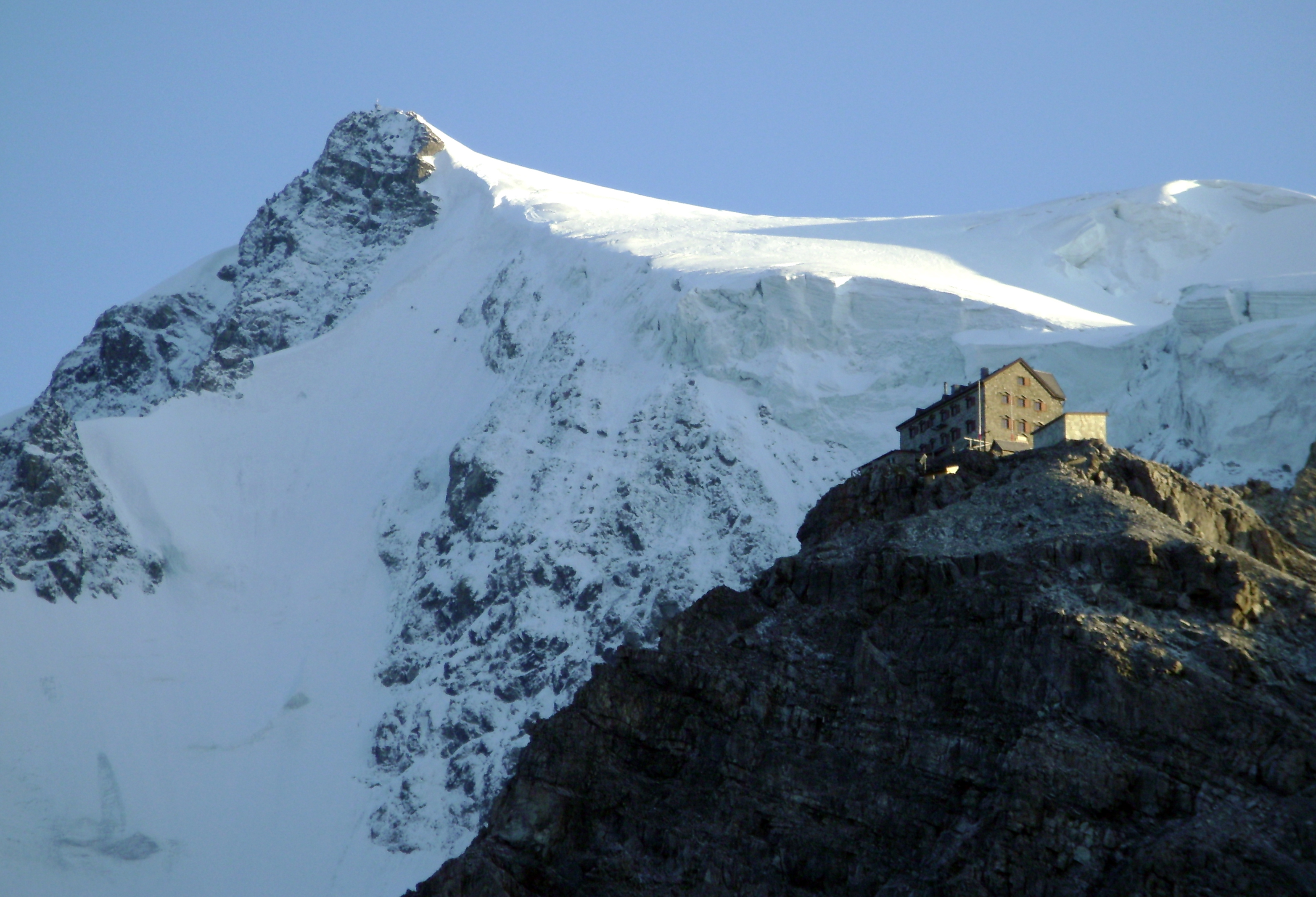 Payerhütte, Ortler